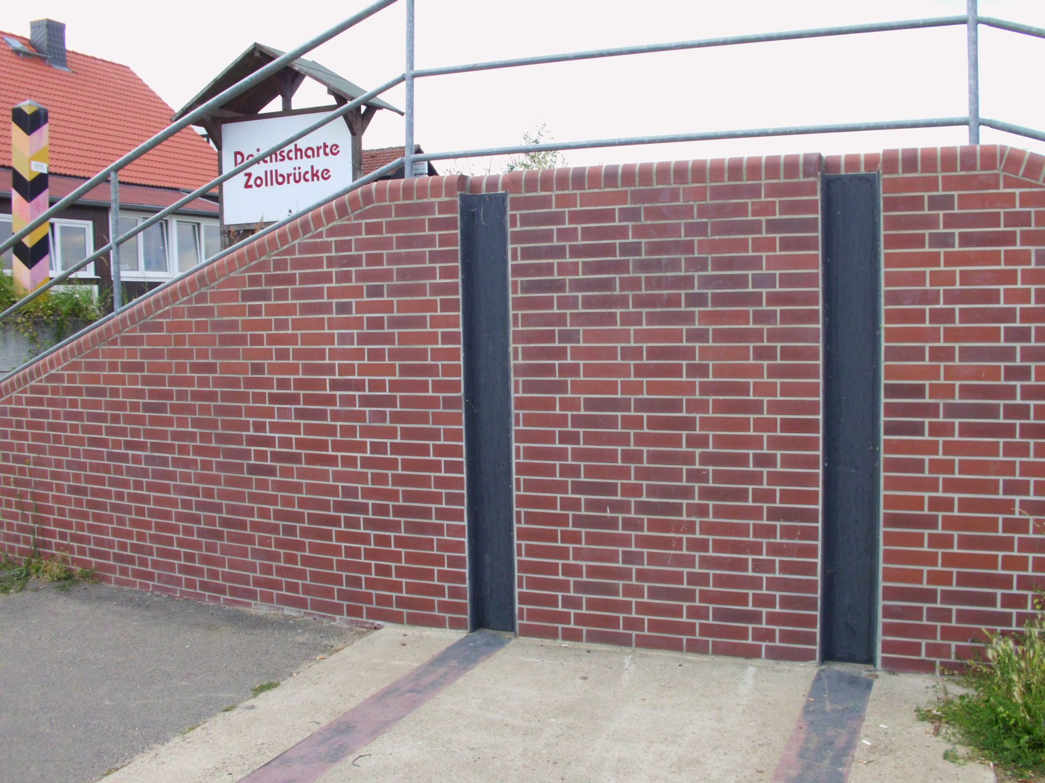 Dike notch Zollbrücke